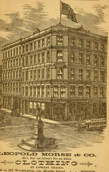 Official gazette of Massachusetts (1886) page 7.